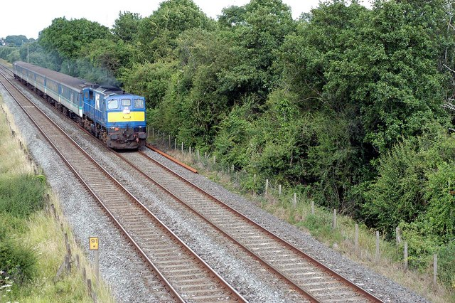 111 passing the site of Goodyear Halt 111 17:17 Belfast to Newry Express, passing the site of Goodyear Halt, approaching Seagoe near Portadown Goodyear Halt was opened on the 14-12-1970 to serve the nearby factory, "Goodyear", but was closed on the 30-10-1983, after the factory closed down. The factory was on the left of the photo.